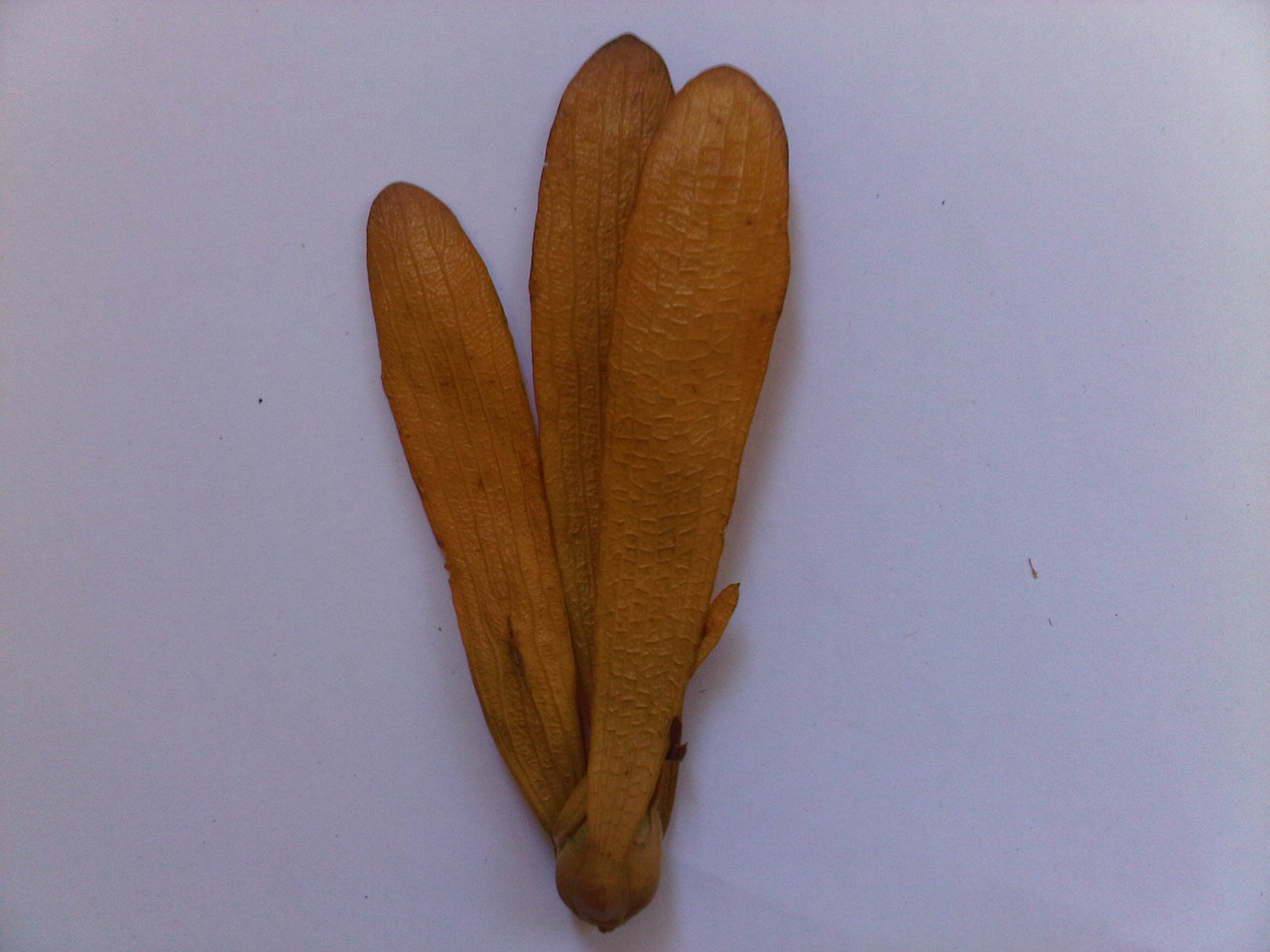 Seed of Shorea leprosula